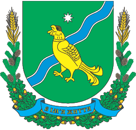 英语：Coat of Arms of Ivankivsky raion in Kiev oblast